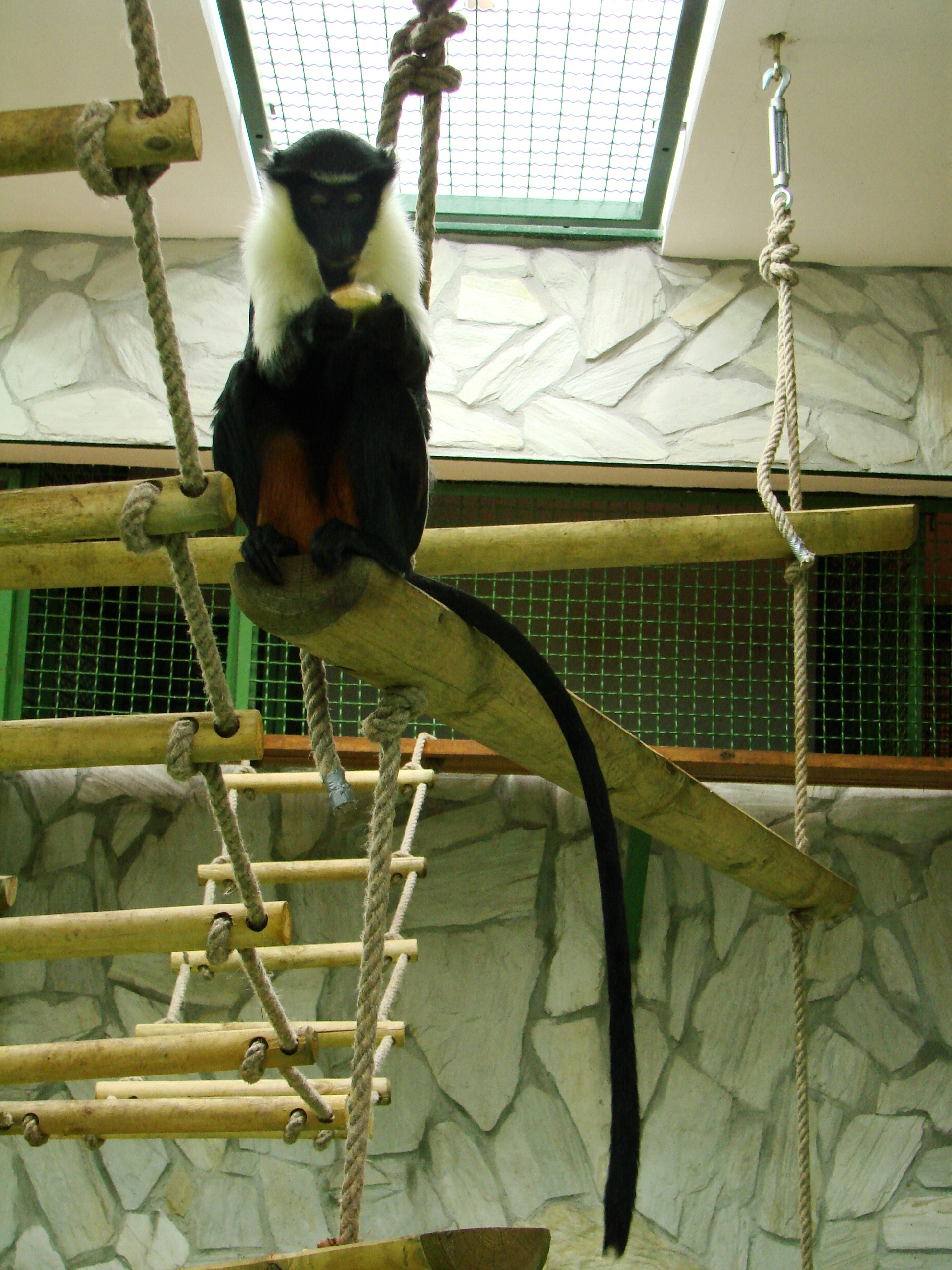 Animal species: Diana Monkey (Wrocław zoo)